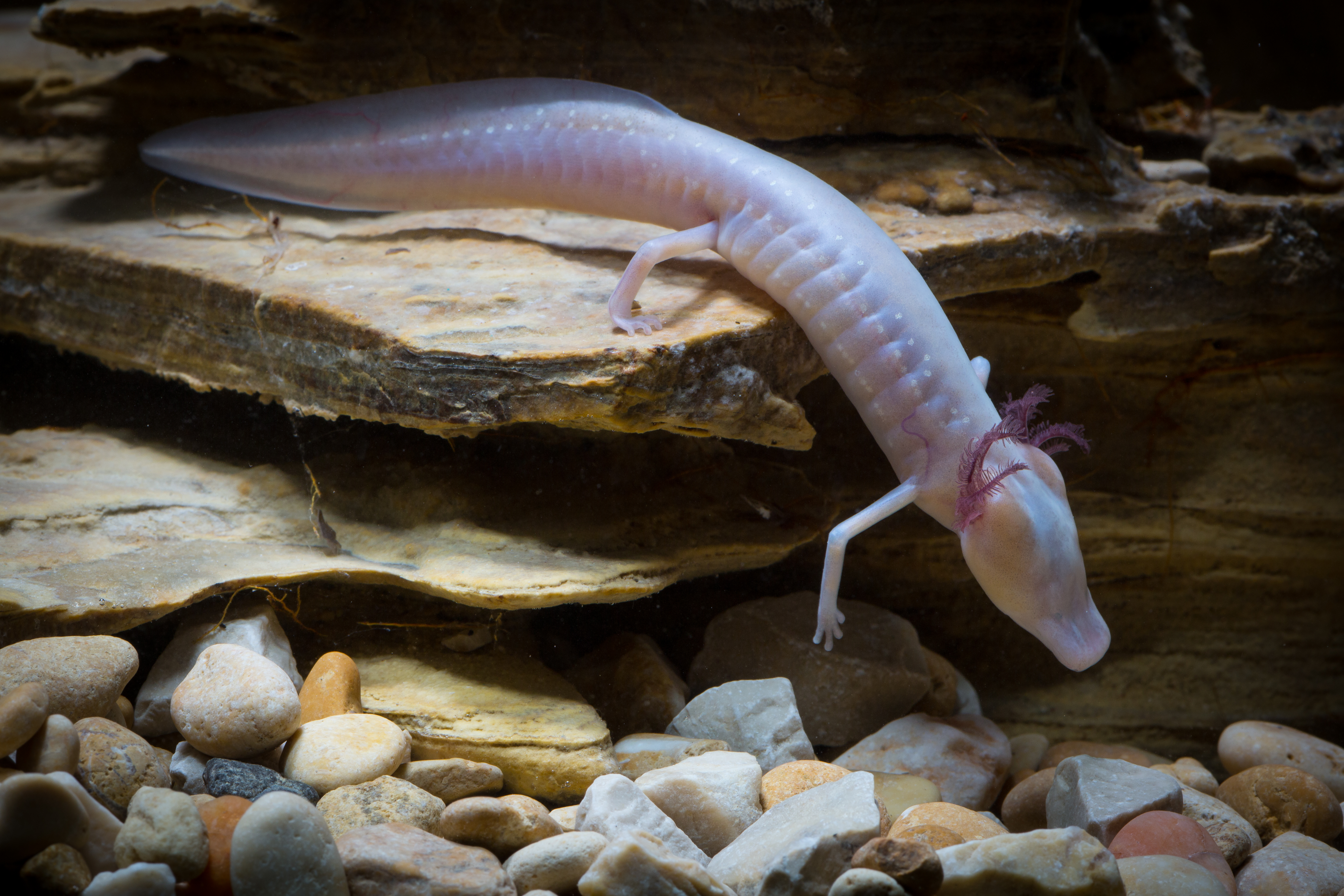 Texas blind salamander (Eurycea rathbuni)